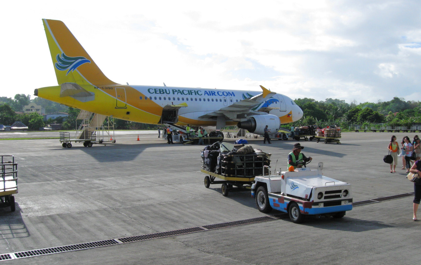 Tagbilaran Airport, Bohol, Philippines